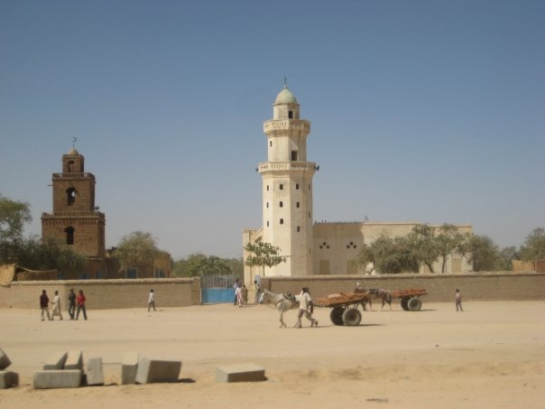 Abéché, Tchad